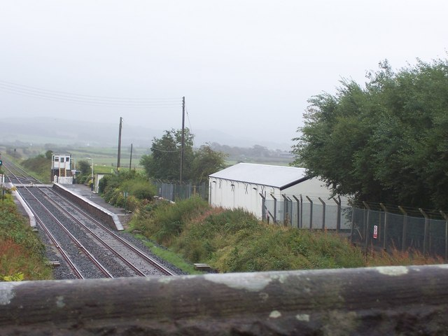 Drigg railway station, level crossing and signal box